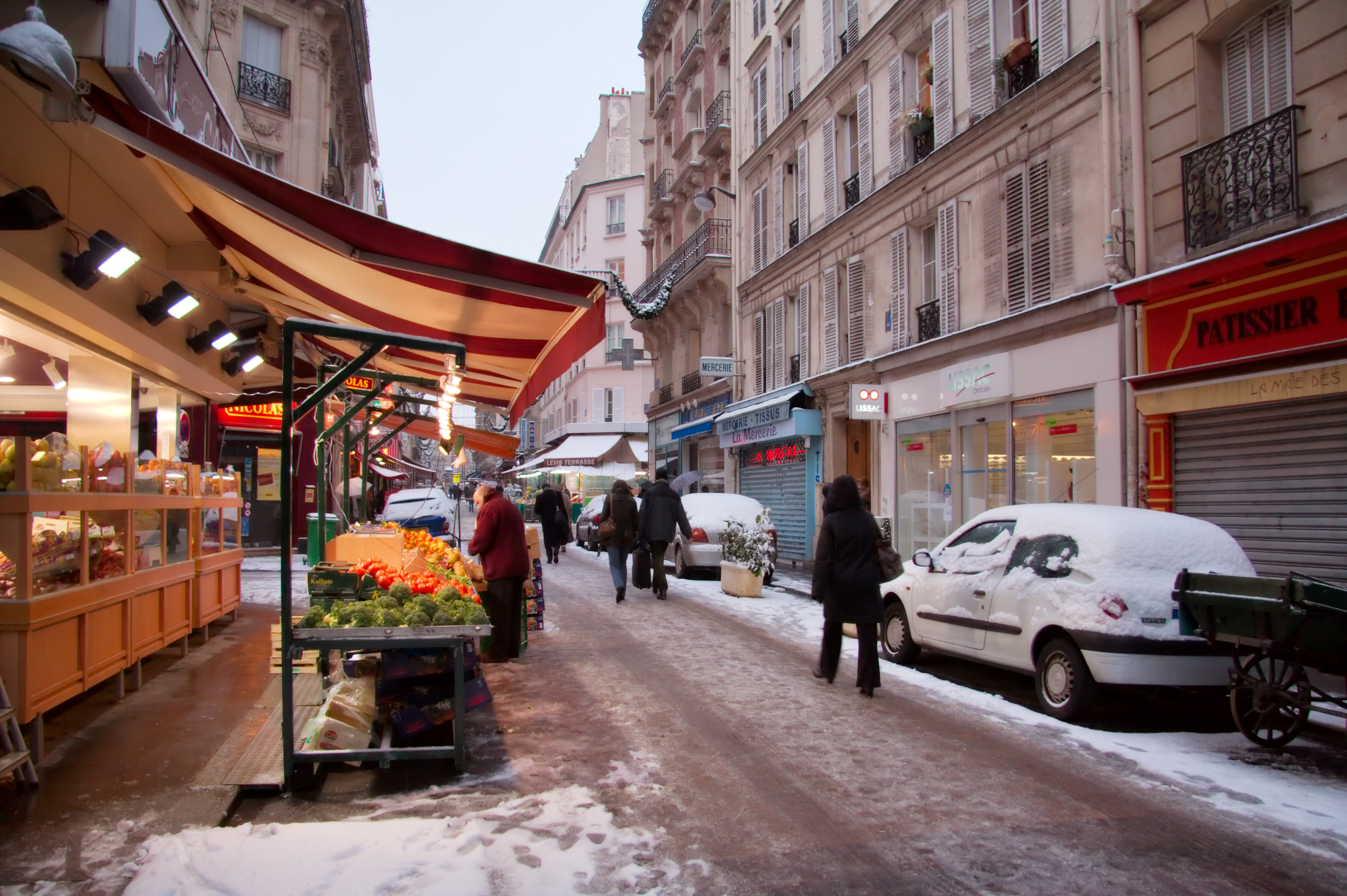 Street Rue de Lévis (Paris, France)